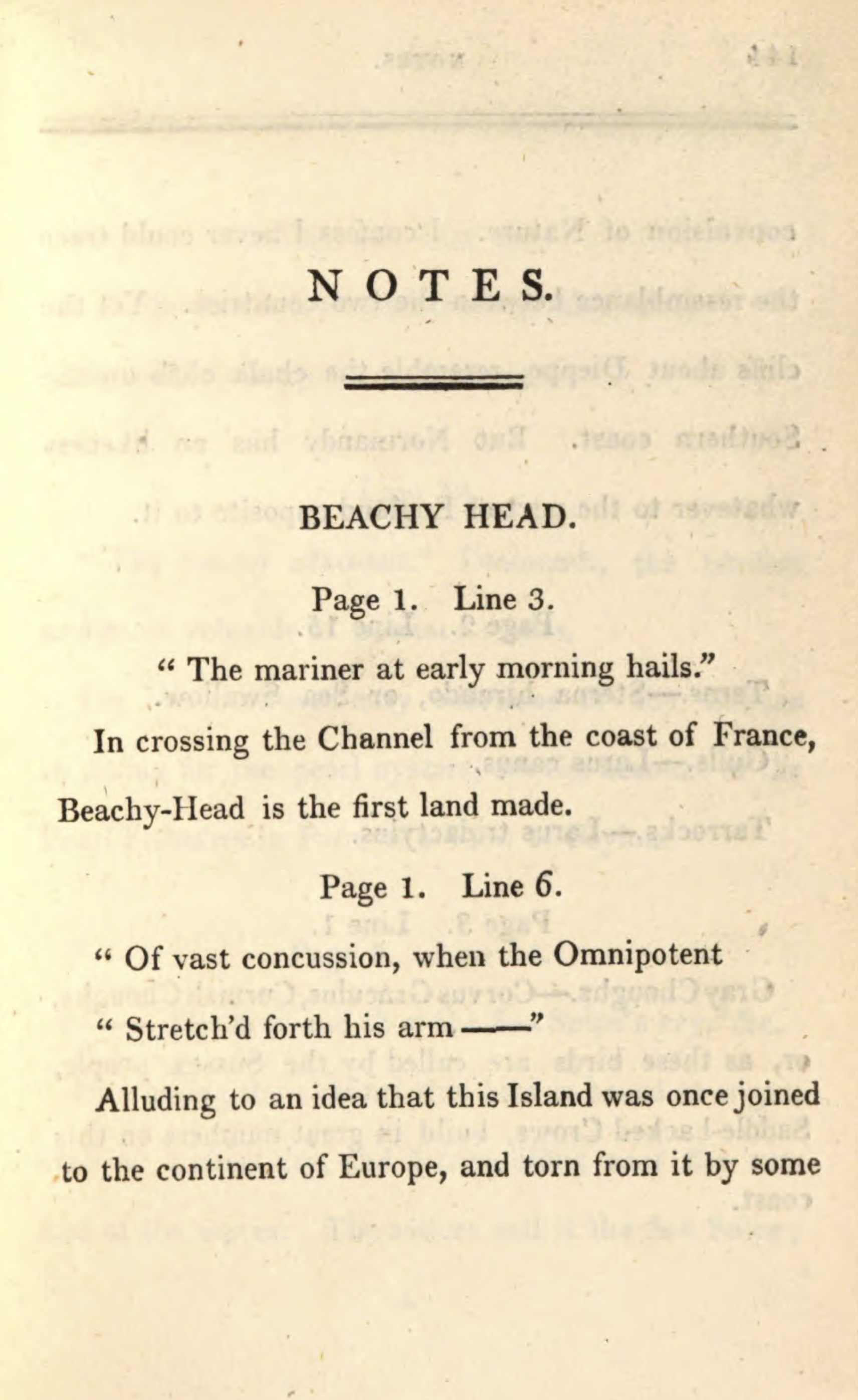 The first page of endnotes for Charlotte Smith's 1807 poem Beachy Head